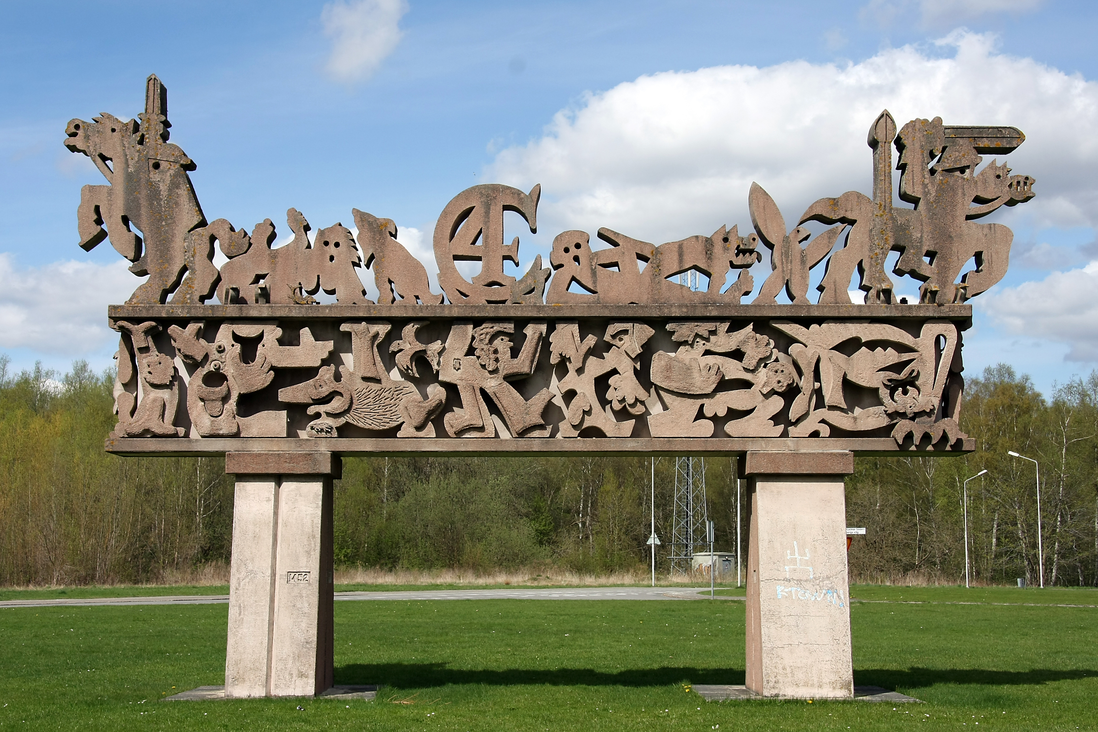 Artwork Från Vä till Österäng (From Vä to Österäng) by Per Olov Ultvedt, 1988, in the Österäng district of Kristianstad, Sweden, is a monument over the city founder, Kristian IV.